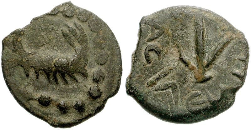 JUDAEA, Herodians. Herod I (the Great). 40-4 BCE. Æ Half Prutah or Lepton (14mm, 1.07 g, 6h). Jerusalem mint. Cornucopia / Eagle standing right. Dark green patina.